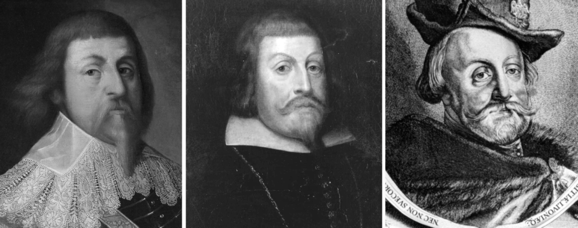 Portrait of Władysław IV Vasa dressed according to French, Spanish and Polish fashion.